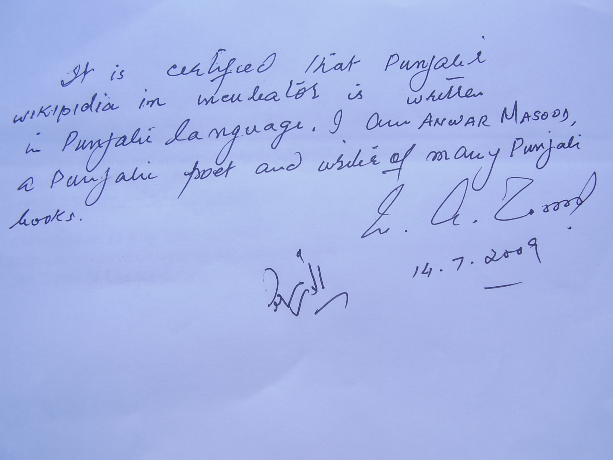 Anwar Masood's statement